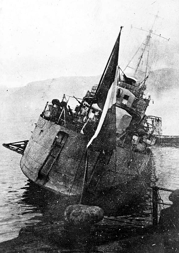 Scuttling of the French Fleet at Toulon on 27 November 1942: the destroyer Le Mars capsizing to starboard after being scuttled at the Toulon Lazaret (Quarantine Station) on 27 November.